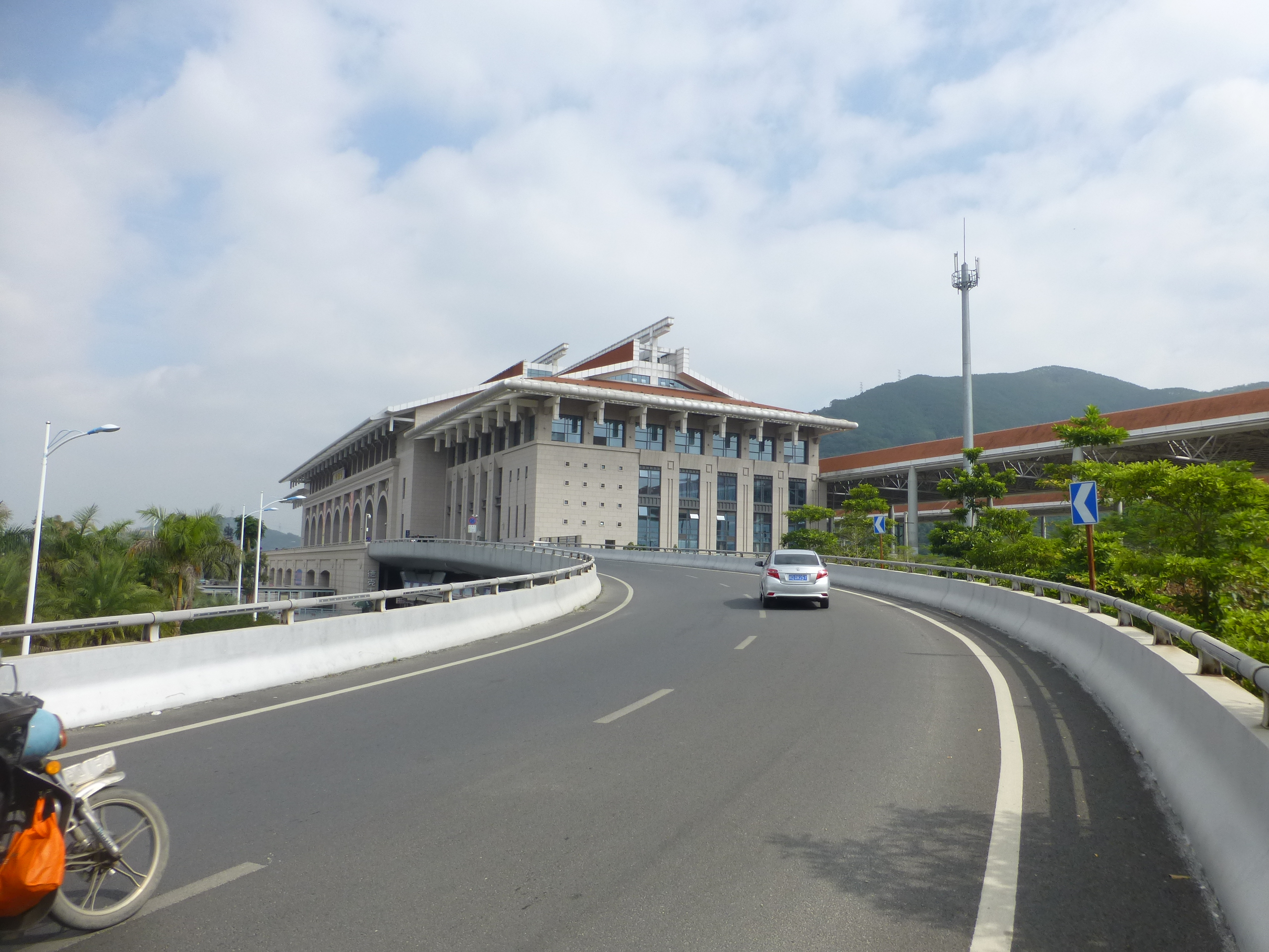 Zhangzhou Railway Station